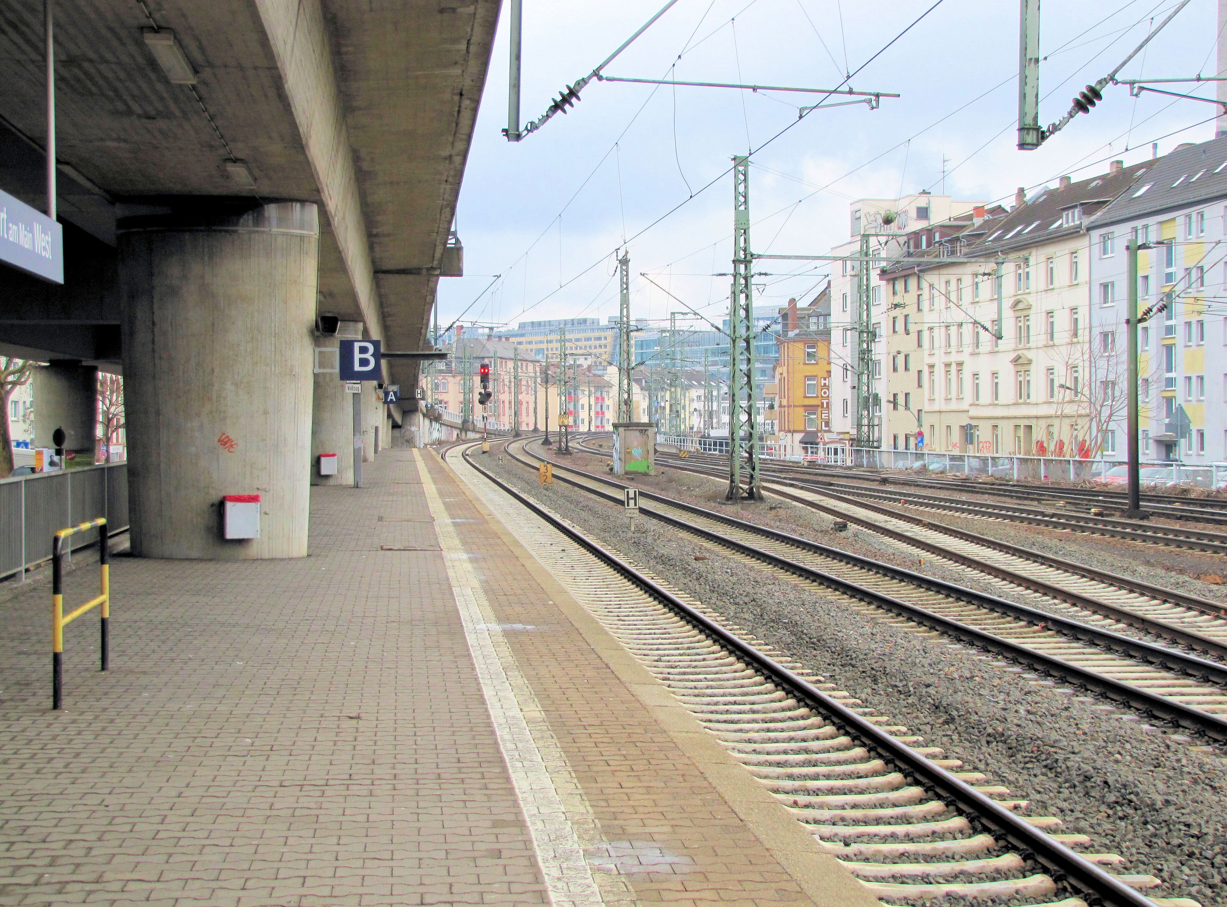 "Bahnhof Frankfurt (Main) West" an regional railway and S-Bahn station, at Frankfurt-Bockenheim, Germany, platforms for "S 6" (view in direction city).